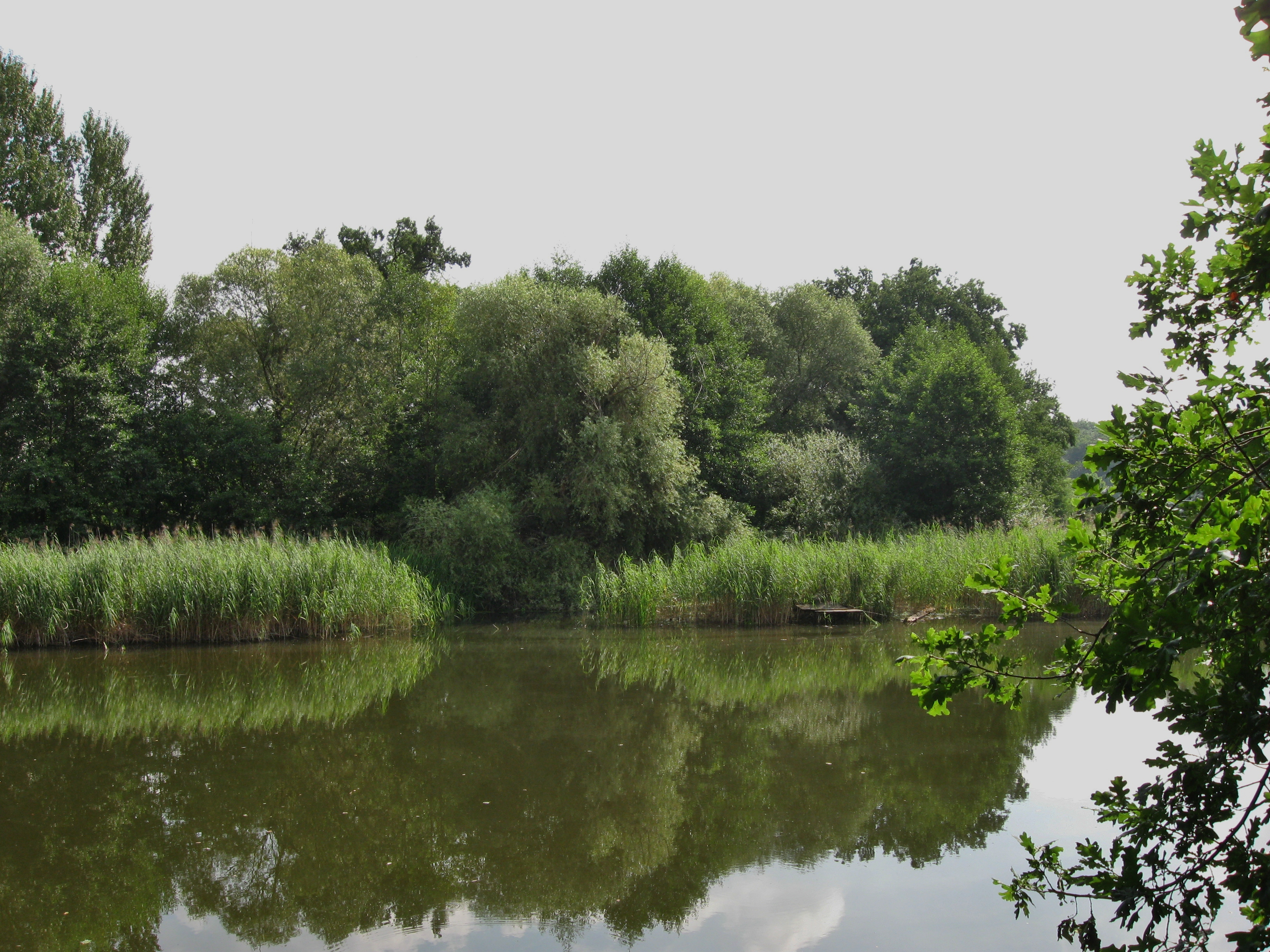 Natural monument Kolínské tůně